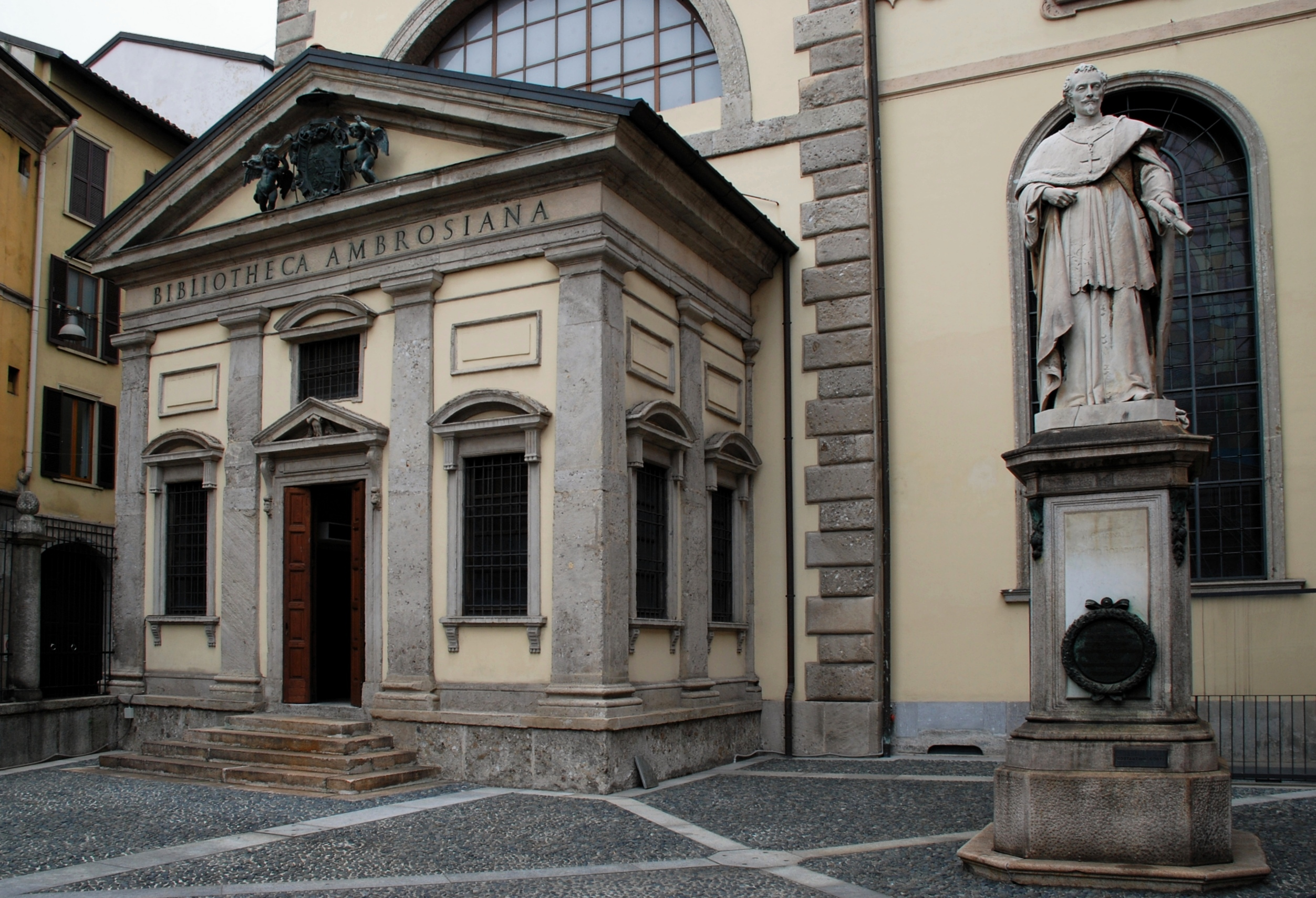 Biblioteca Ambrosiana, Milan.